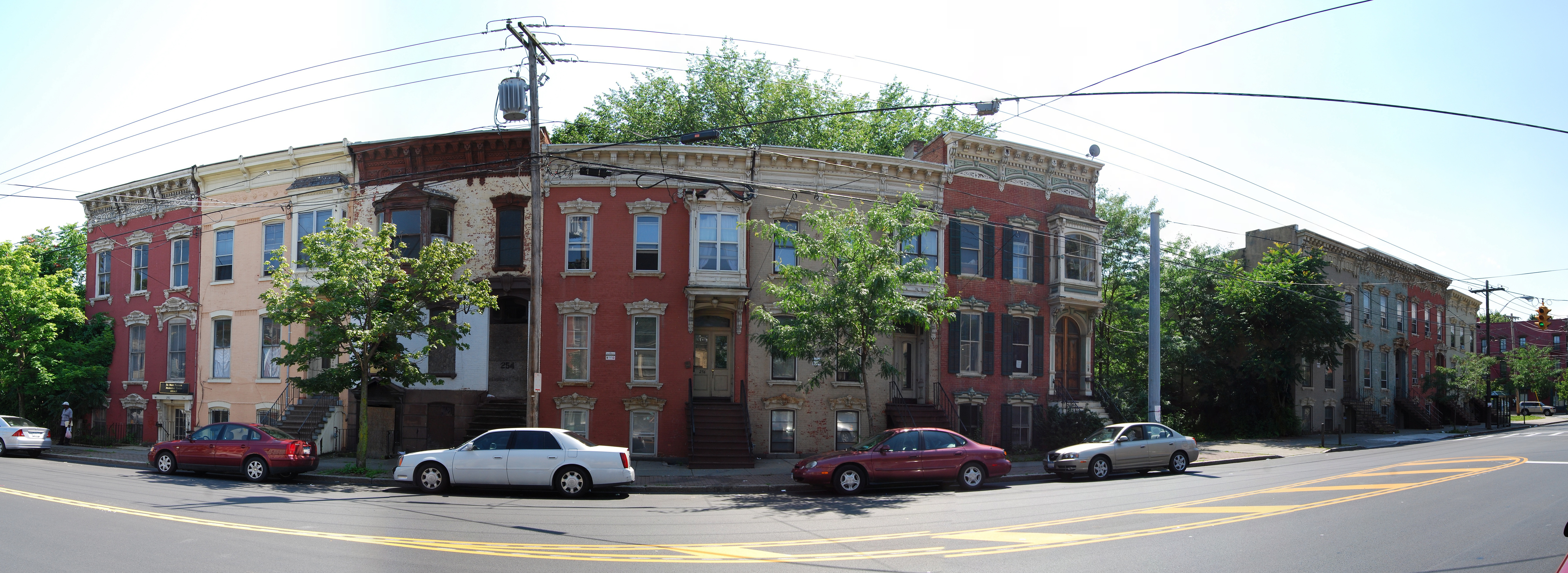 252-70 Clinton Avenue in Albany, New York, United States, part of the Clinton Avenue Historic District